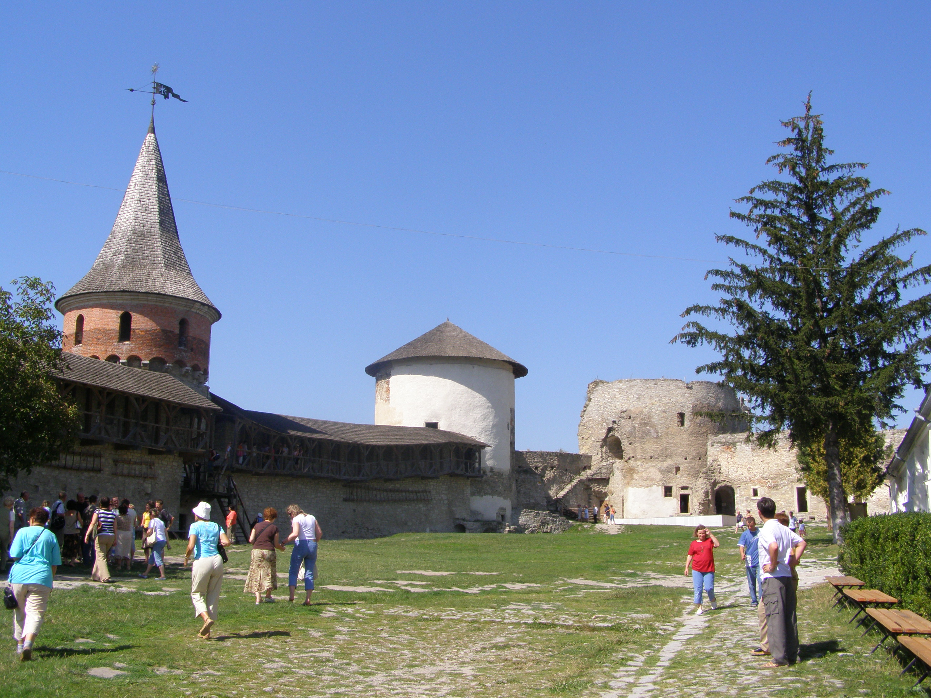 Kamianets-Podilskyi, Castle